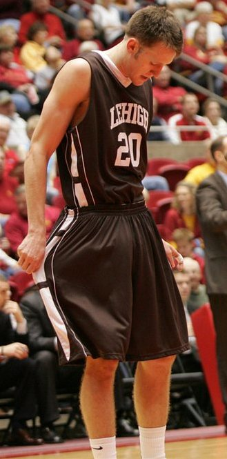 Iowa State vs. Lehigh basketball